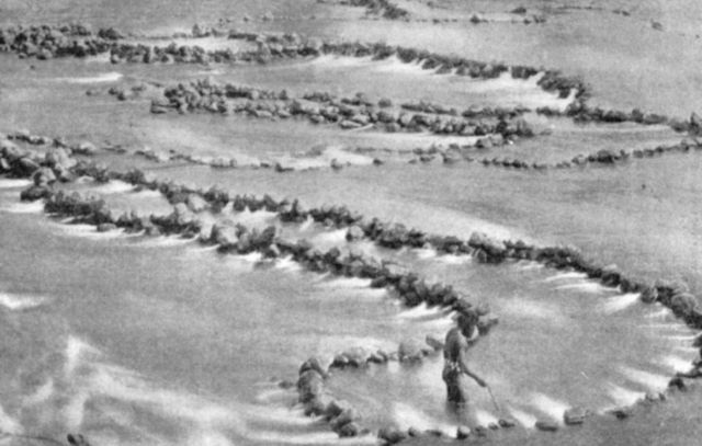 Brewarrina Aboriginal Fish Traps: Historic (probably posed) photo of a man fishing in the Brewarrina Aboriginal fish traps, published in The Dawn 1893.